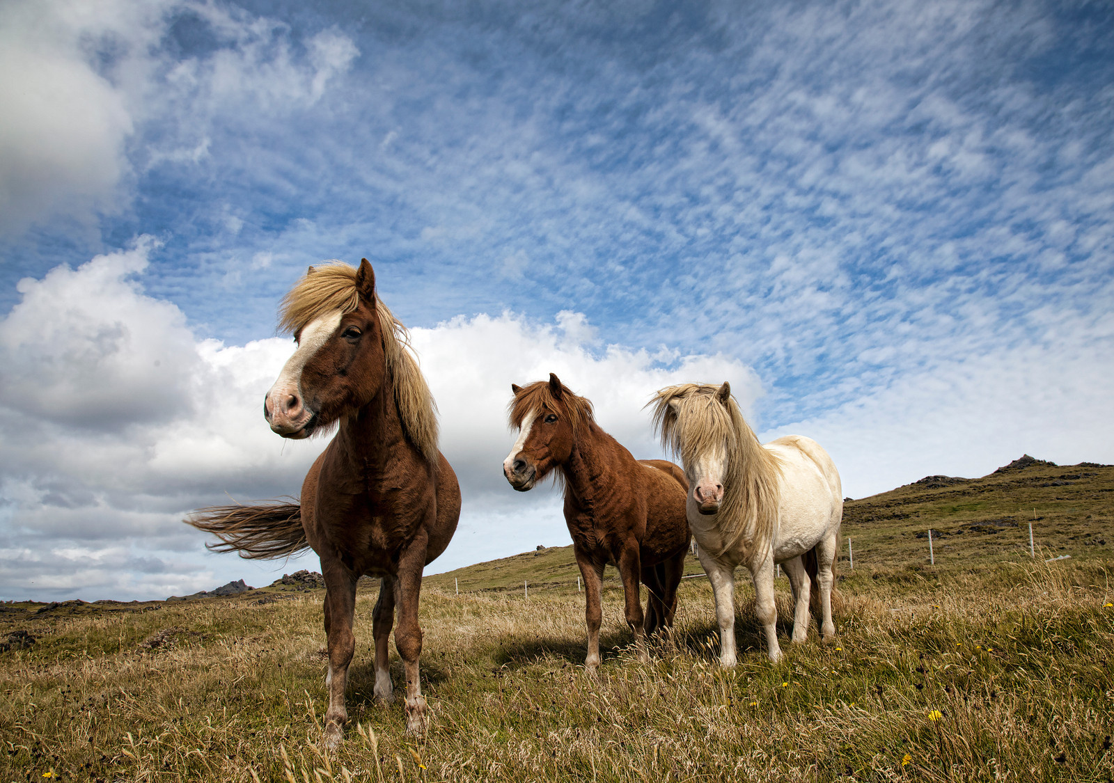 Icelandic horses